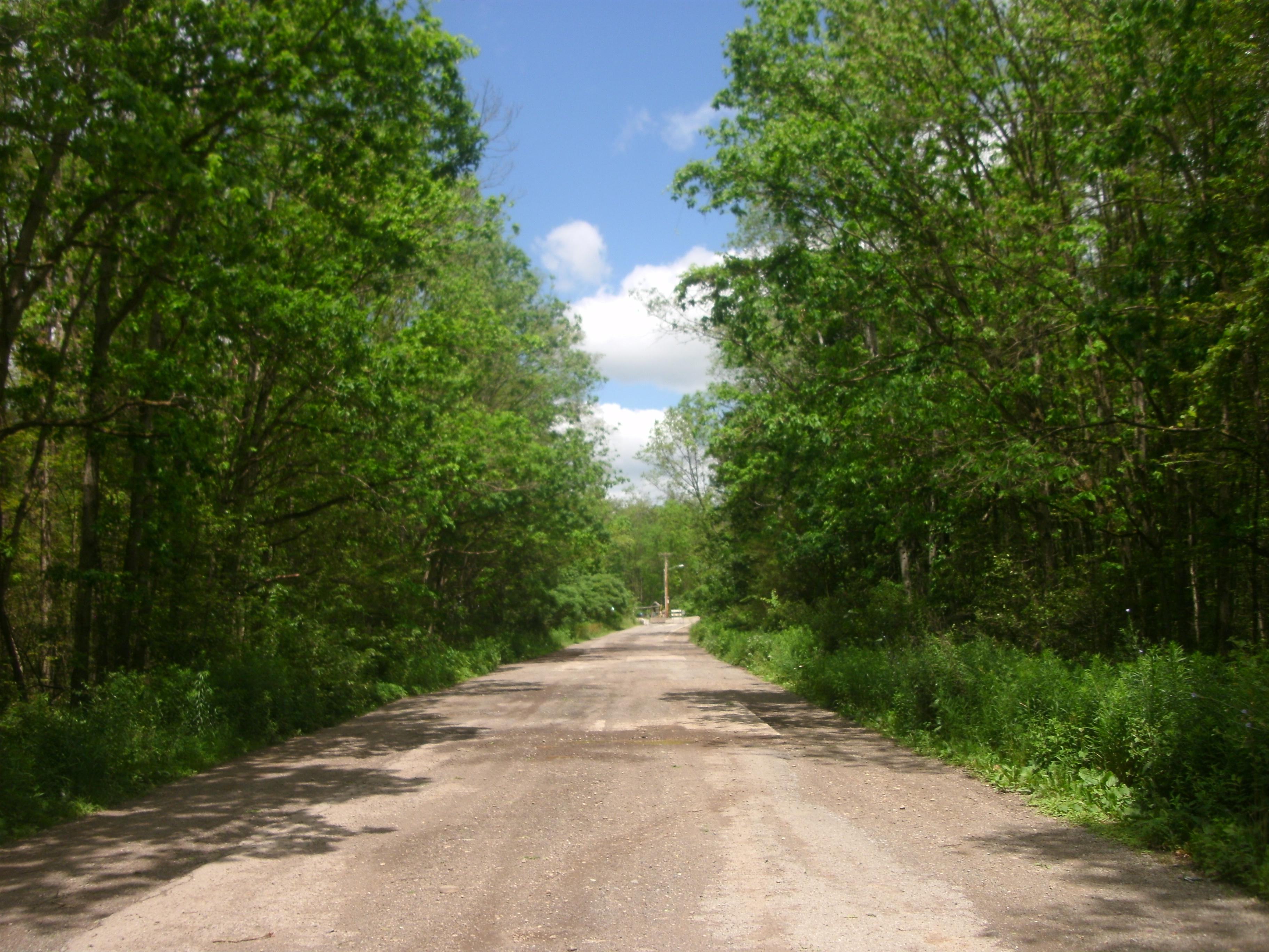 The former alignment of New York State Route 17 through the town of Red House, New York. The alignment is on land of the Seneca Nation is off limits without permission.